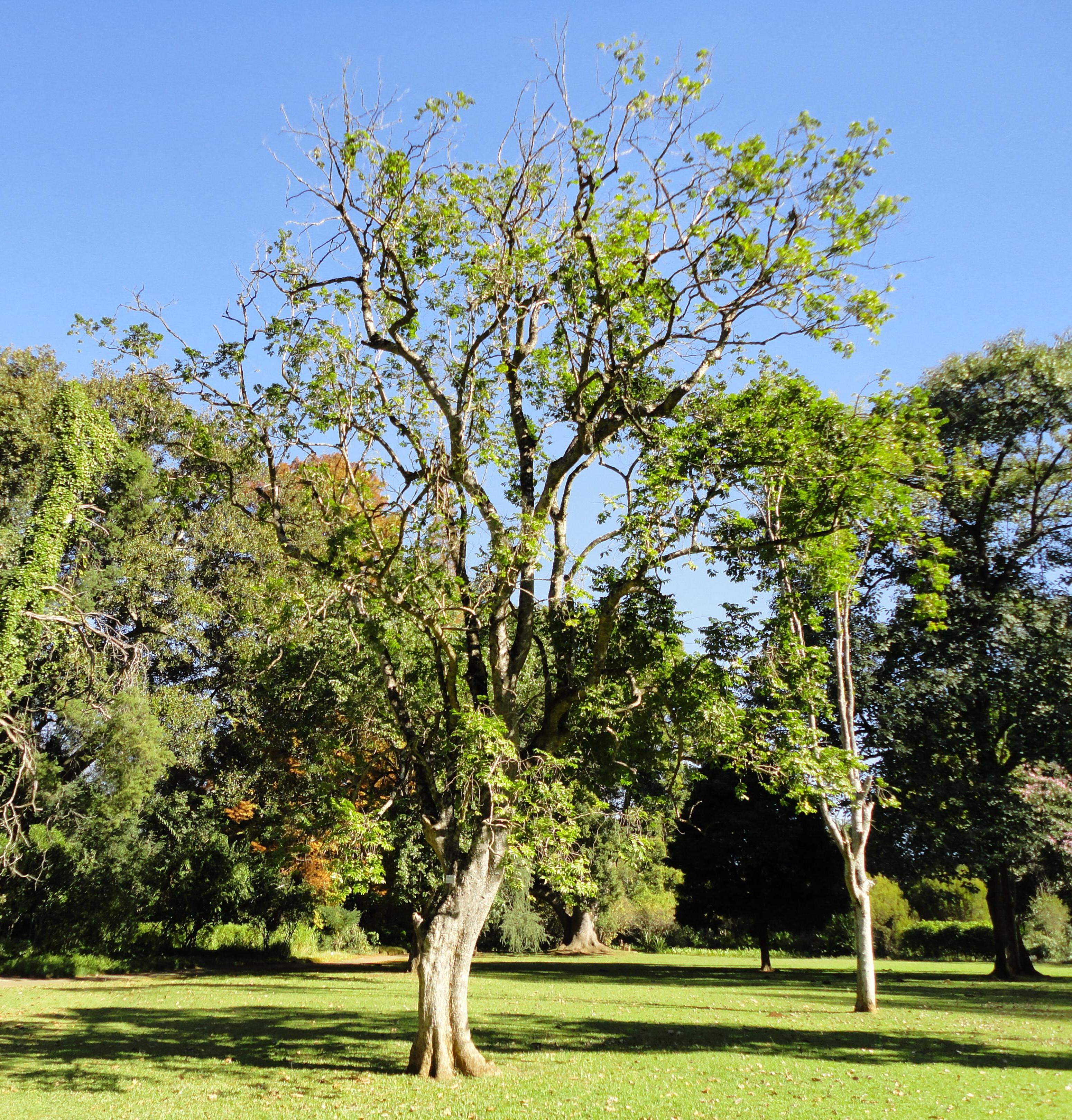 Growth habit of the Sword-leaf, in the KwaZulu-Natal National Botancal Garden, Pietermaritzburg IsiZulu: umGunguluzane, umJuluka